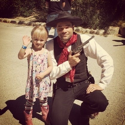 Showman Joey Dillon with Berlin, daughter of Western children's author Lorin Morgan-Richards.